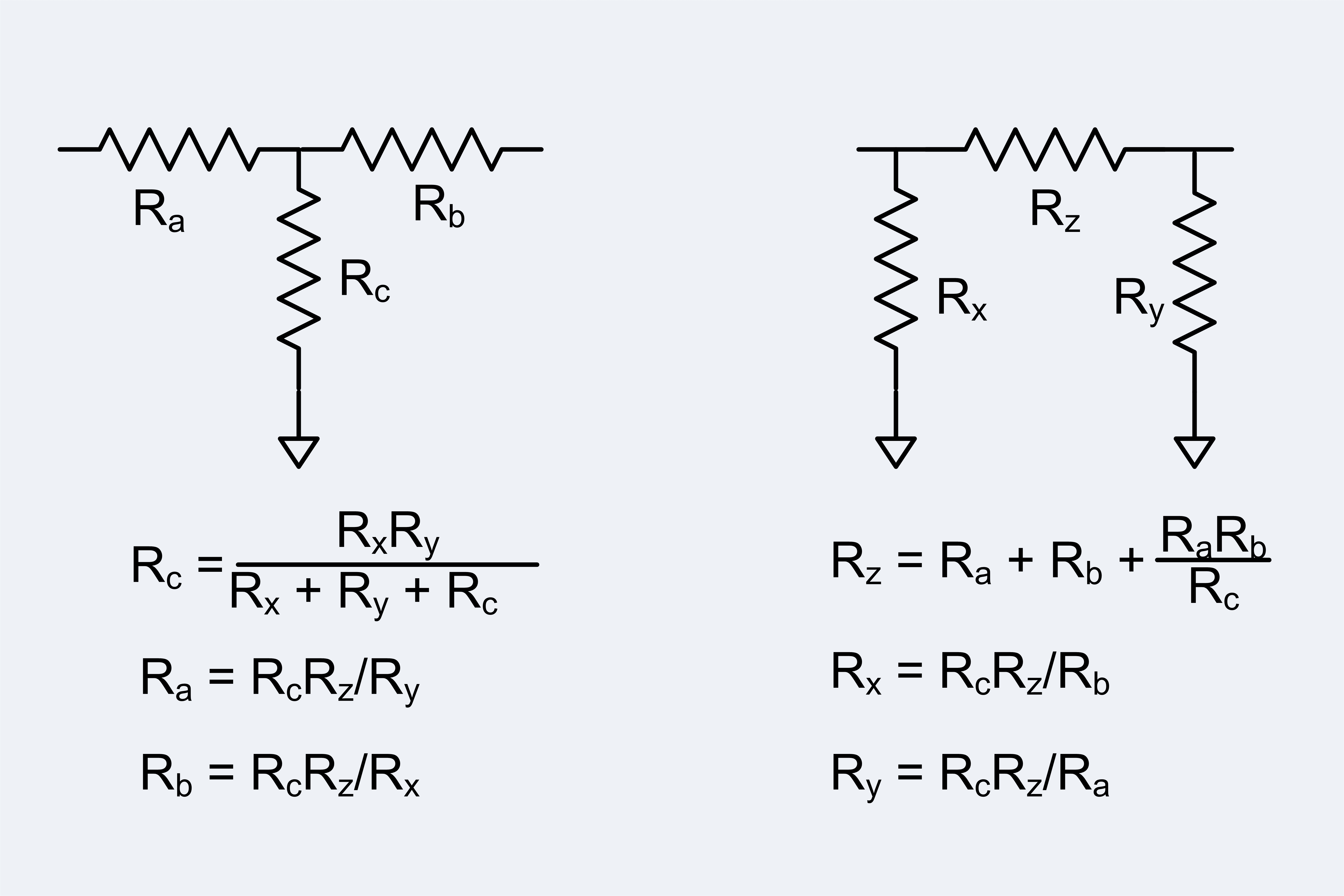 Schematic and equatio ns fro co version of Pi pad to Tee pad and Tee pad to Pi pad.